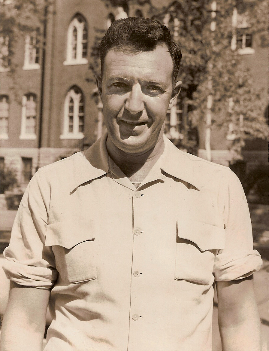 Picture of Harry Conway Forrester to be posted to his Wikipedia page.